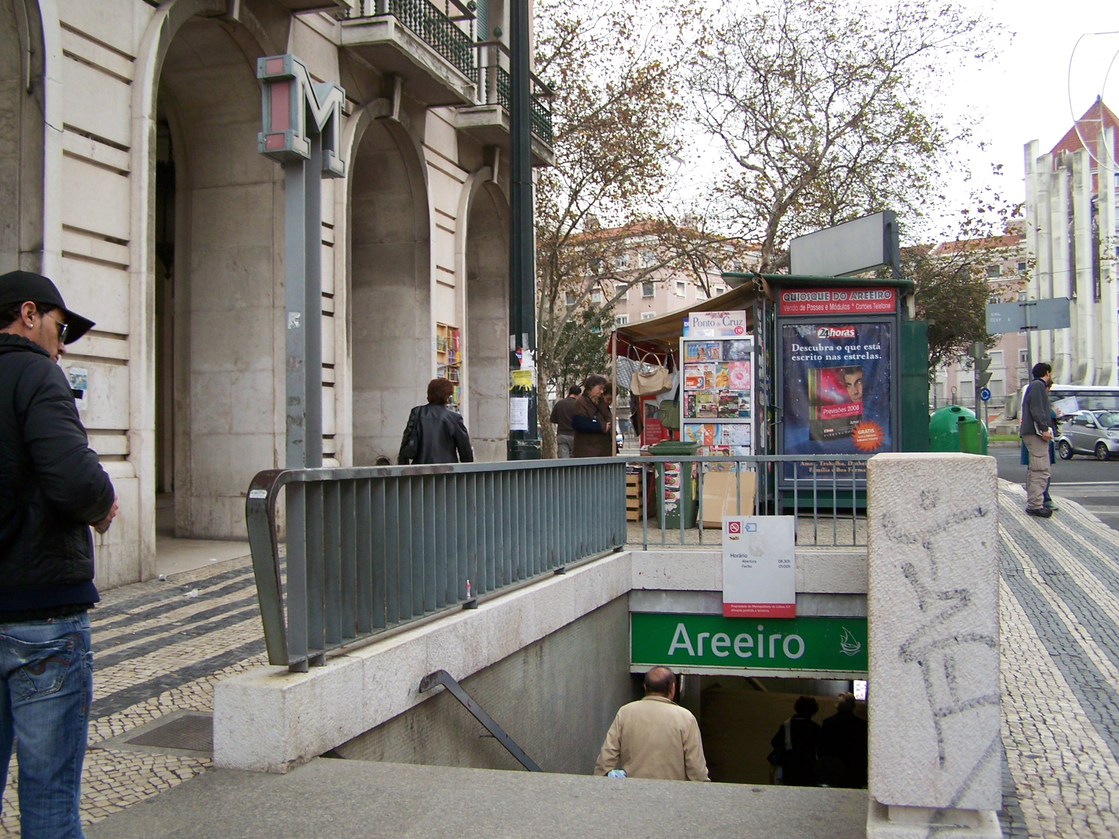 Entrance to the Areeiro underground station